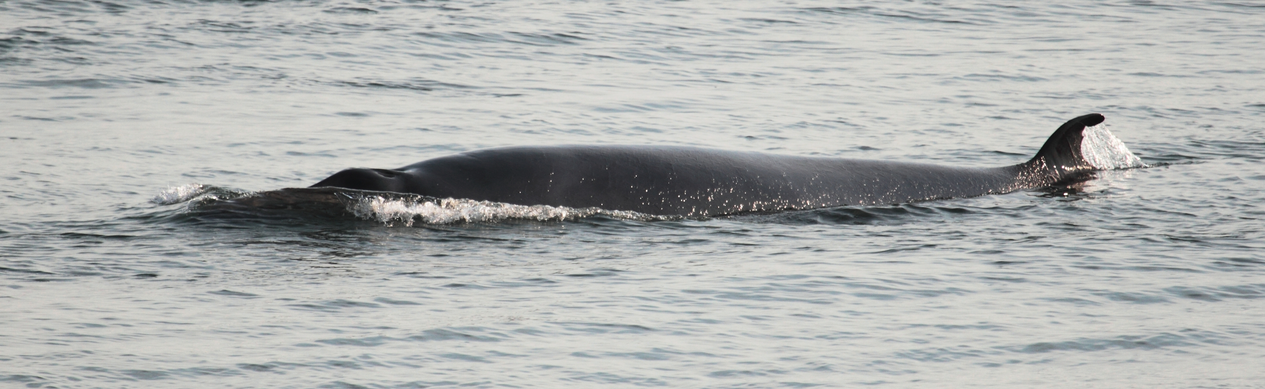 Common minke whale, Cap-de-Bon-Désir, Les Bergeronnes, Quebec, Canada